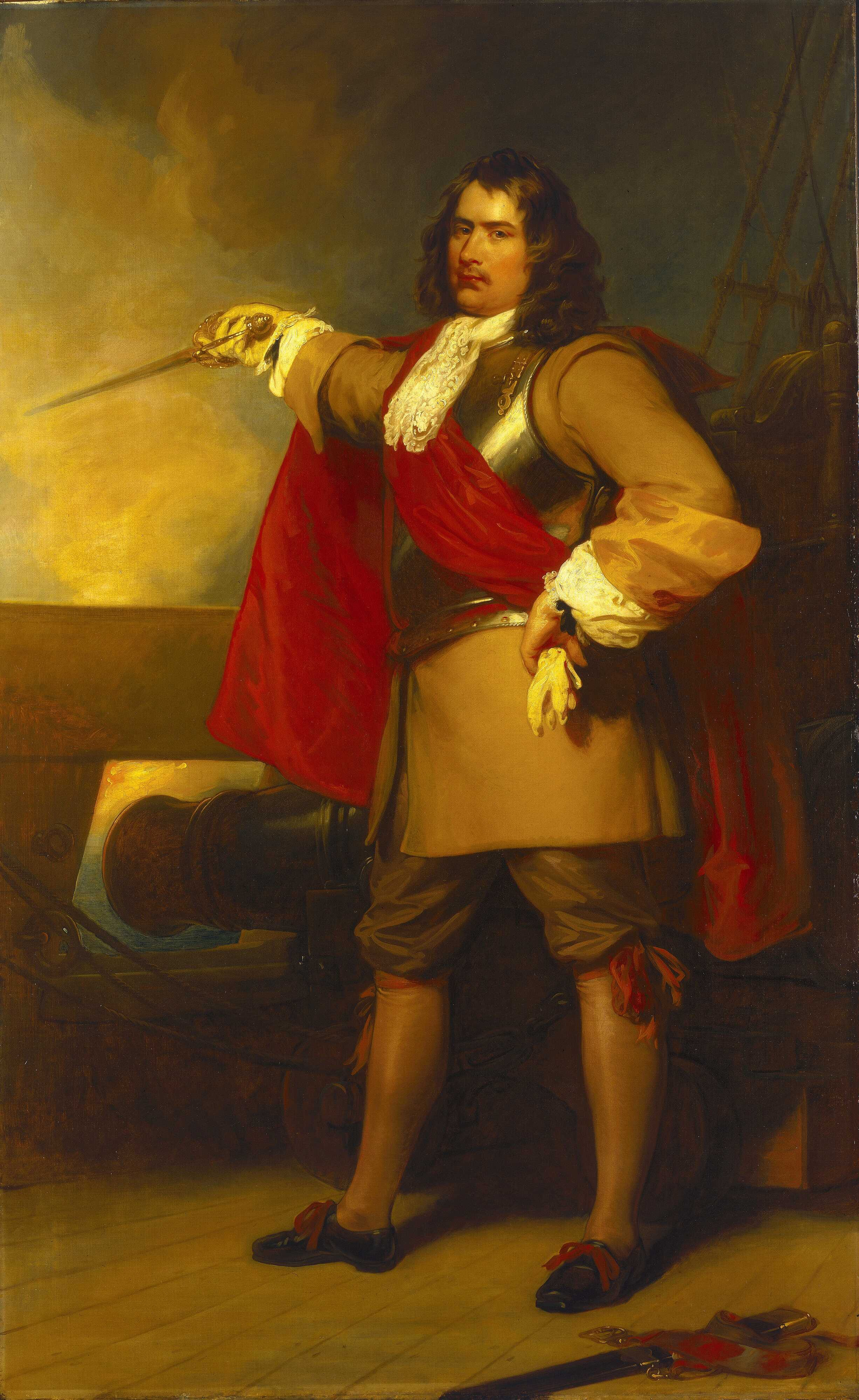 Robert Blake, General at Sea, 1598-1657 This retrospective, highly romanticized portrait was painted some 170 years after Blake's death. It shows him full-length to the left, wearing a breast-plate and leather coat with a red sash and cloak, breeches, and stockings. He wears red ribbons on his shoes. He stands on the deck of a ship and, holding a sword in his gloved right hand, he points it over the gunwale and out to sea. He holds his other glove in his left hand and stands in front of a cannon, while to the right in the foreground the sheath of his sword lies on the deck. Blake was one of the first to take up arms against King Charles I and as commander of the navy of Oliver Cromwell's Commonwealth became one of the most renowned seamen in English history. In 1640 he was elected to the Short Parliament and his staunch Puritanism led him to join the Parliamentary cause against King Charles I at the outbreak of the Civil War in 1642. He soon won fame as a general by brilliantly defending Lyme, Dorset, in 1644 and by holding Taunton, Somerset, from its besiegers for more than a year 1644-45. He was appointed General-at-Sea in 1649 and led the English fleet against the Dutch, 1652-54, and against the Spanish 1656-57. His articles of war and fighting instructions represented fundamental reforms, which helped to lay the foundations of England's maritime supremacy. The artist has played on 19th-century interest in the heroic to create this portrait, which was commissioned by Sir Robert Preston Bt., one of the Directors of Greenwich Hospital, for presentation to the Naval Gallery there in 1829. It was reputed to be based on a contemporary miniature of Blake. Robert Blake, General at Sea, 1599-1657